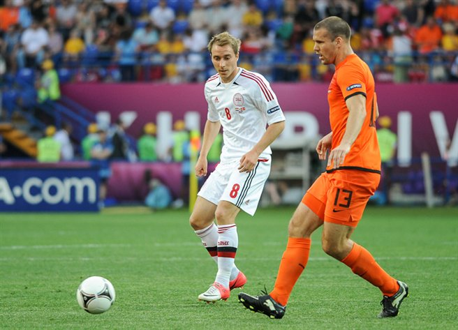 UEFA Euro 2012 match between Netherlands and Denmark that took place in Kharkiv. Final result was 0:1 (Krohn-Delhi). Christian Eriksen (Den) and Ron Vlaar (Net)